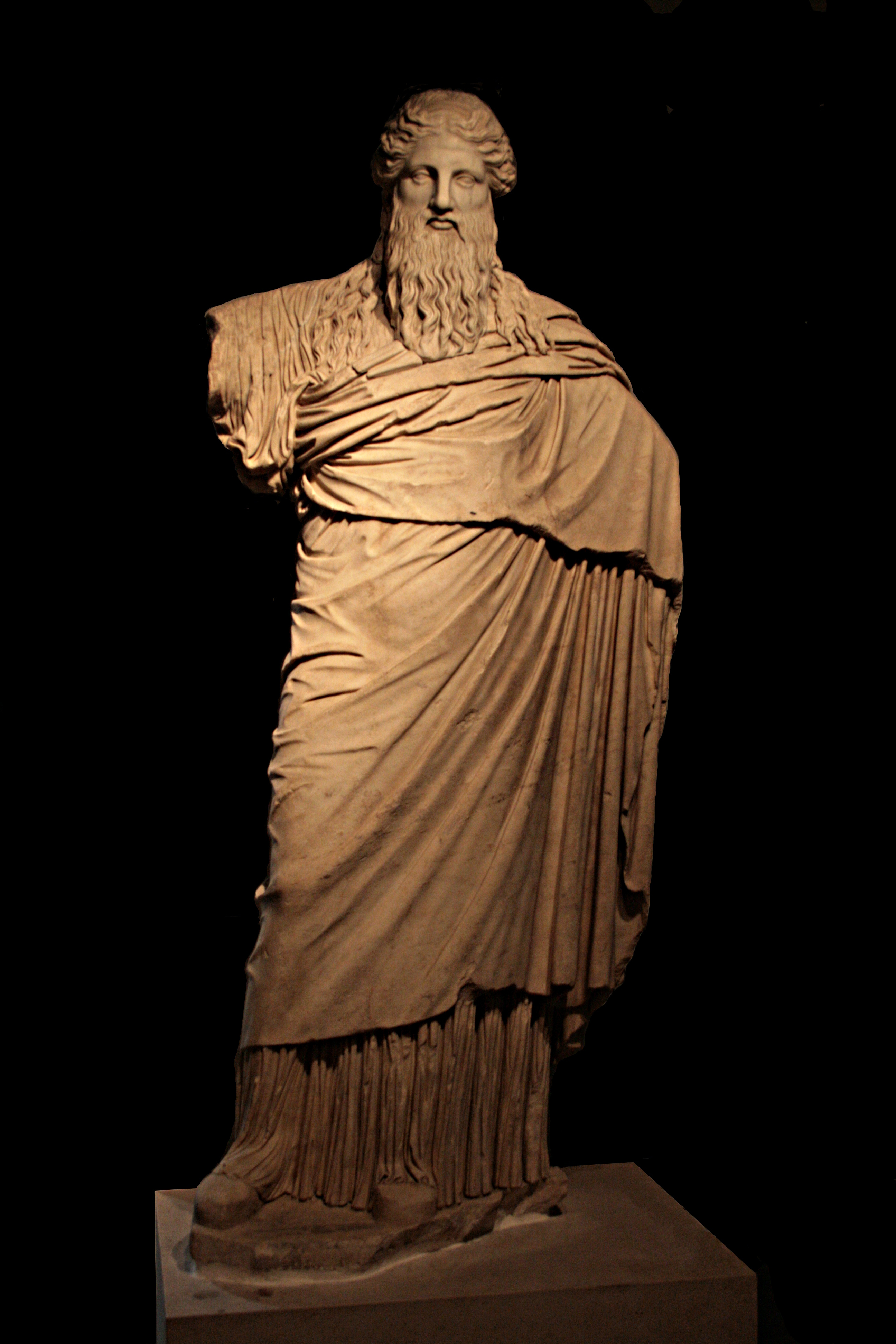 Statue of Dionysos of the Sardanapalos type. Roman copy after a Greek original of ca. 350-325 BC. Said to be from Via Appia Antica, Rome.